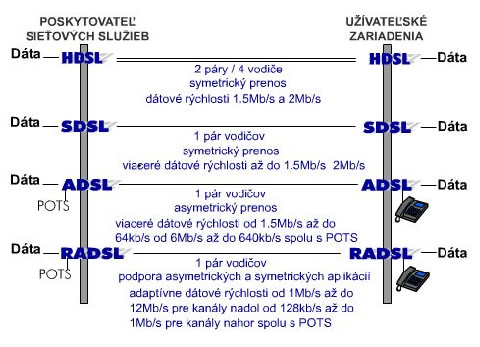 Image of comparing xDSL tecnologies in Slovak language